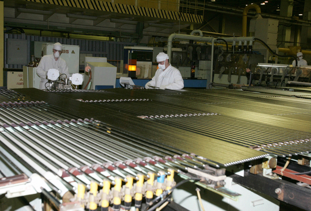 “Public company Heavy Engineering Plant”. Workshop of public company Heavy Engineering Plant in Elektrostal near Moscow. This is one of the oldest enterprises of the national nuclear sector and a major global producer of nuclear fuel.